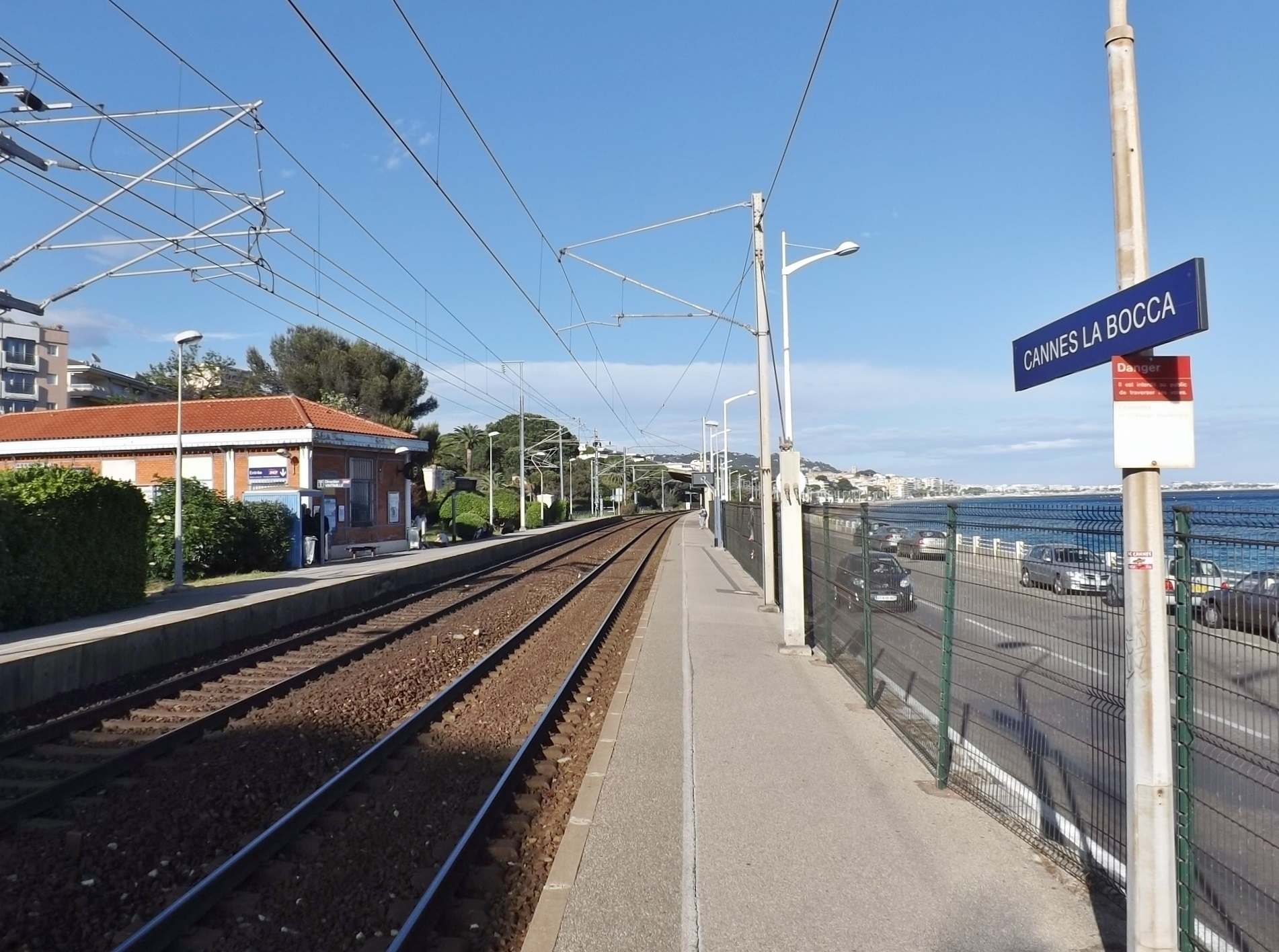 Platforms and tracks of Cannes - La Bocca railway station, in Cannes, Alpes-Maritimes, France.